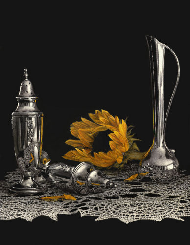 A scratchboard with a silver salt and pepper shaker and a sunflower on a doiley. There is color in the sunflower.